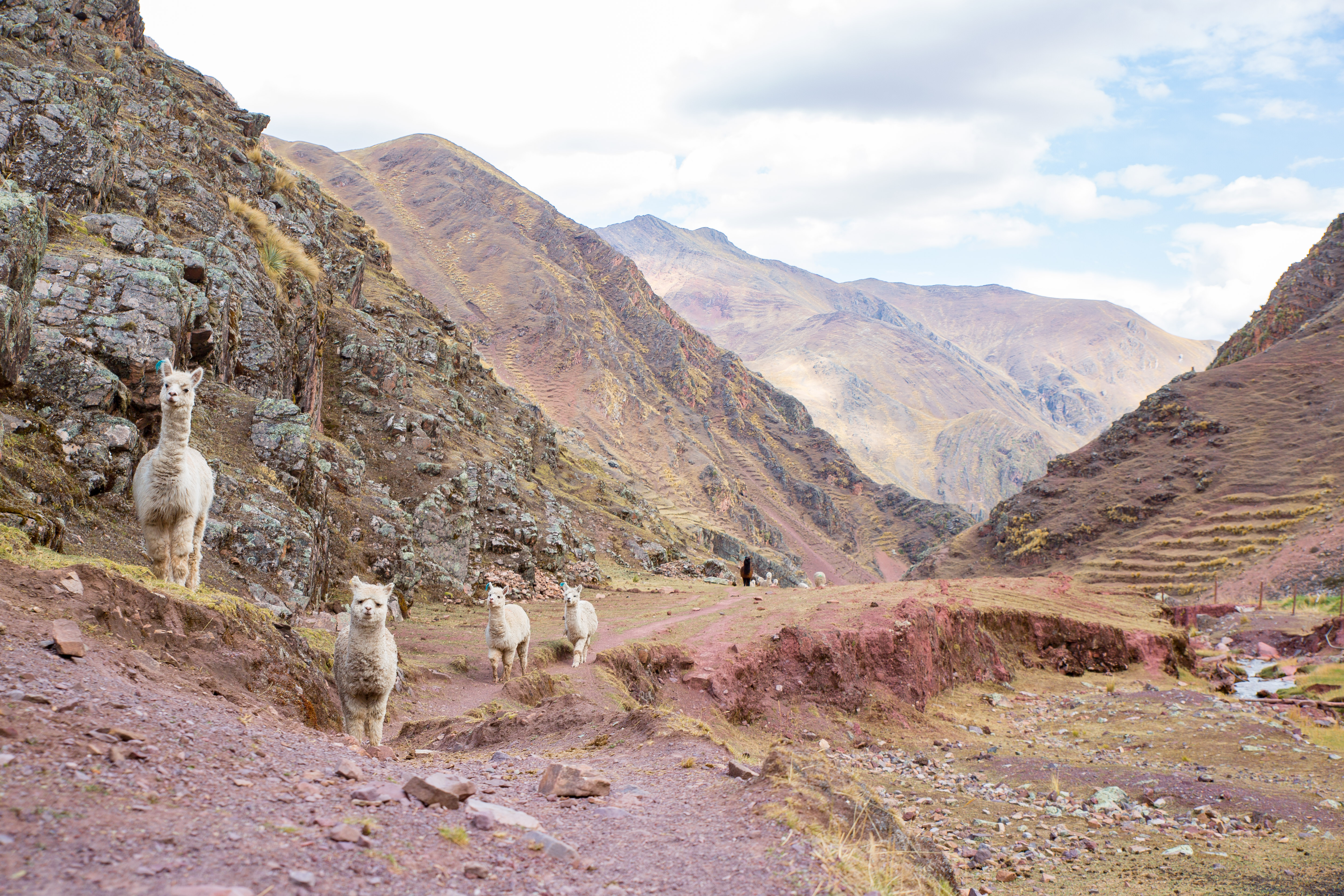 A group of Alpacas look at the strange visitor to the Red Valley near Cusco, Peru